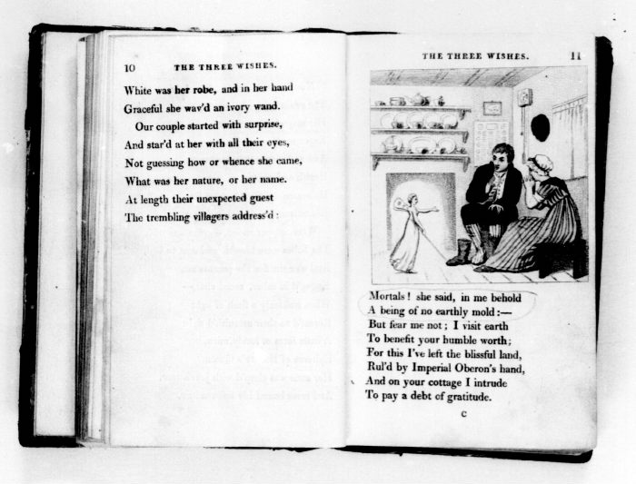 The Three wishes to our station by Catherine Ann Dorset